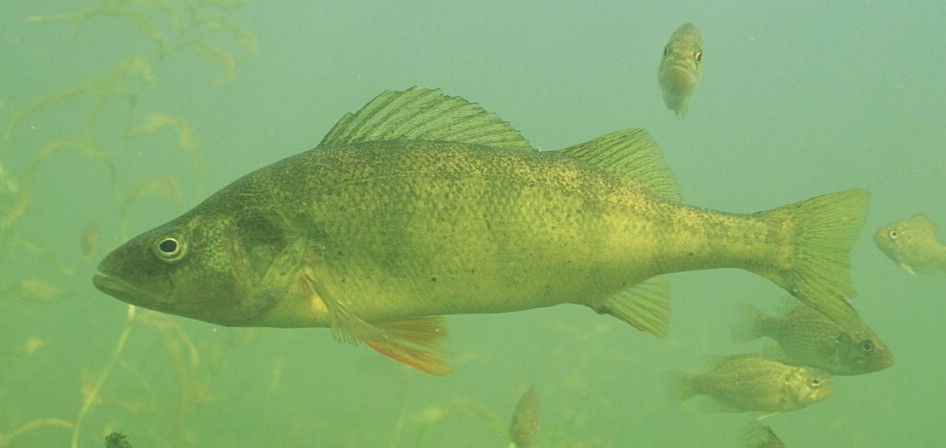 Yellow Perch (Perca flavescens)